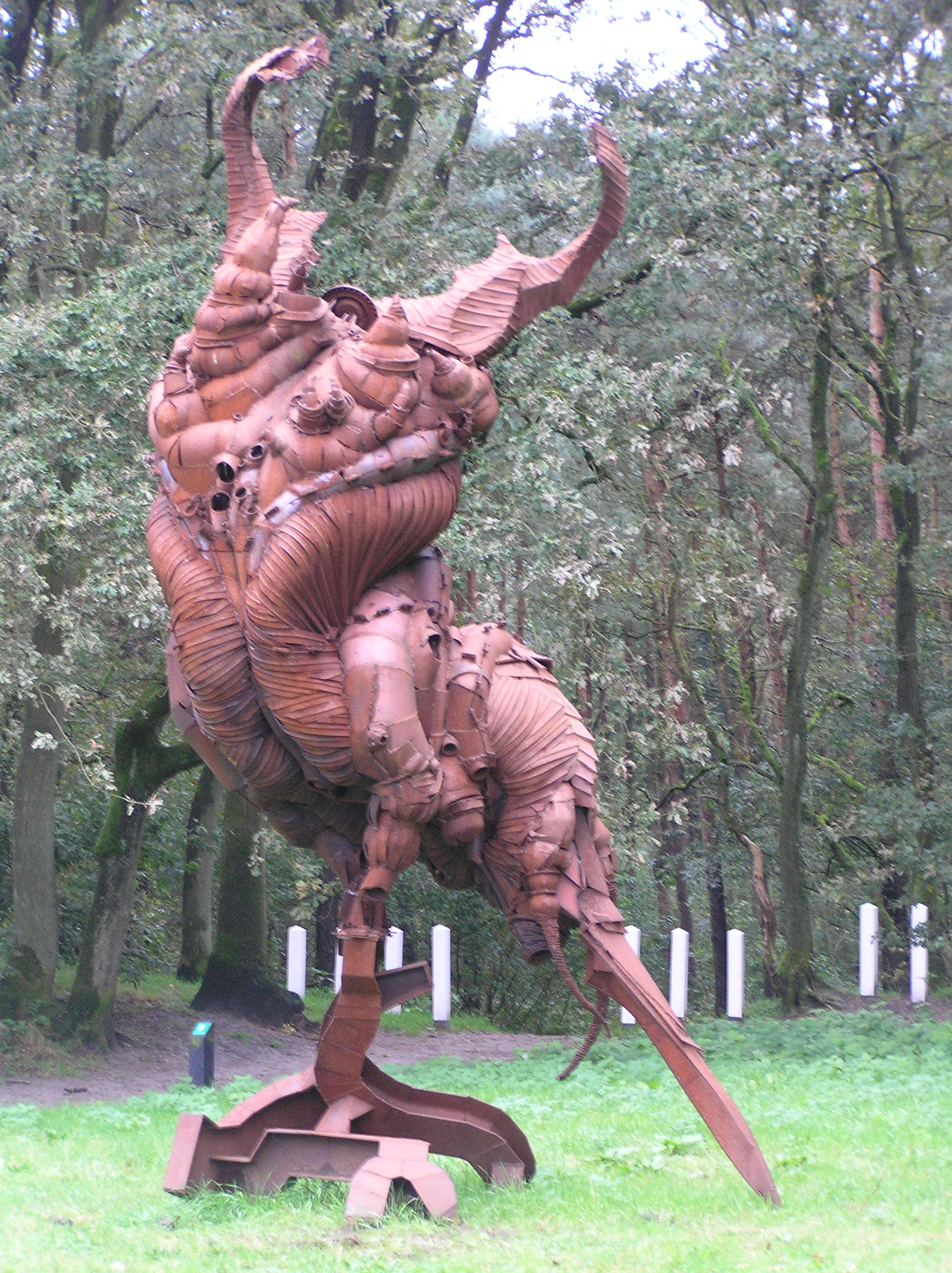 Sculpture "Metamorfose de Larf" by Thijs Trompert at Nimmerdor in Amersfoort, The Netherlands